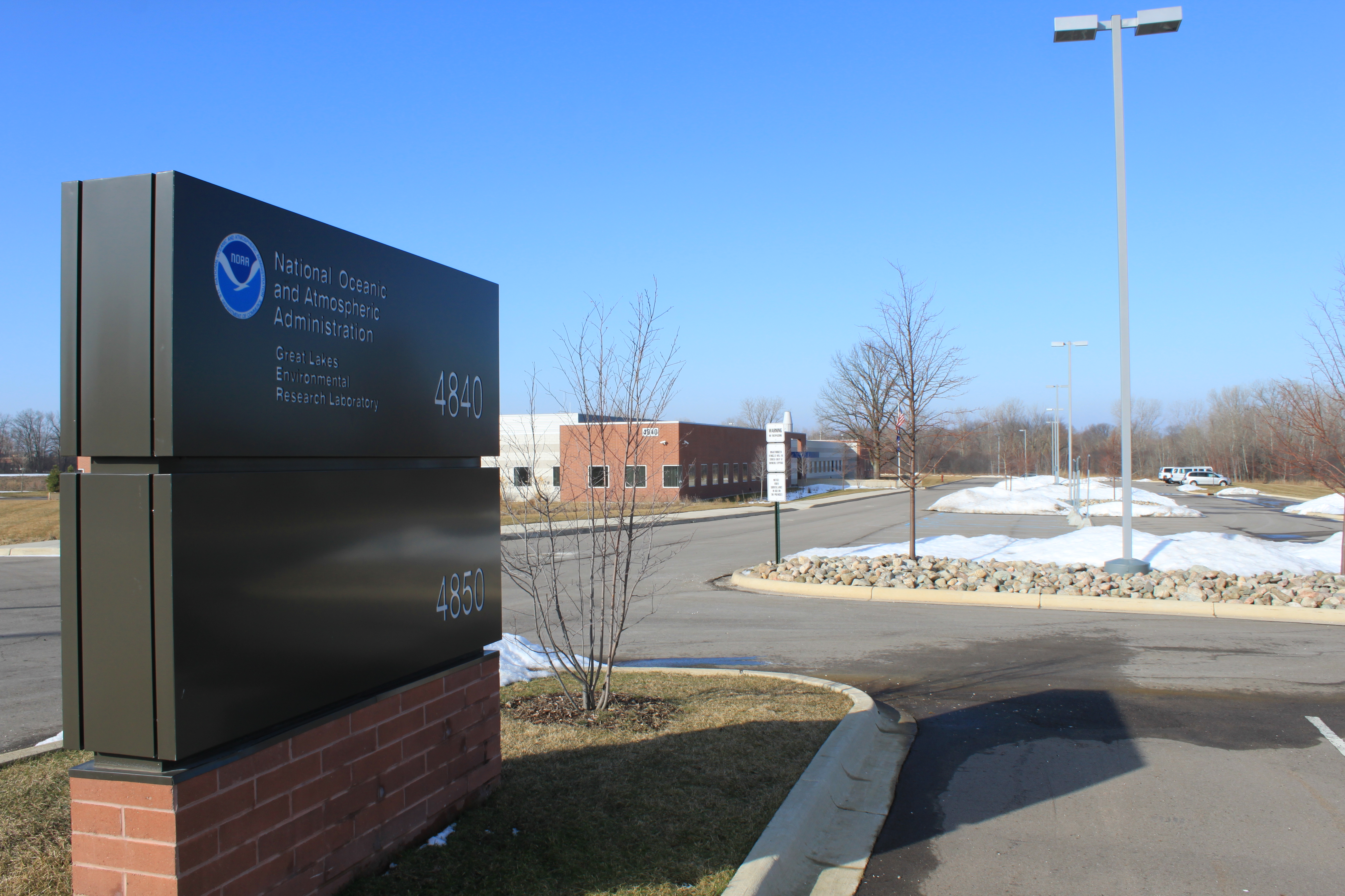 Great Lakes Environmental Research Laboratory, 4840 South State Street, Ann Arbor, Michigan